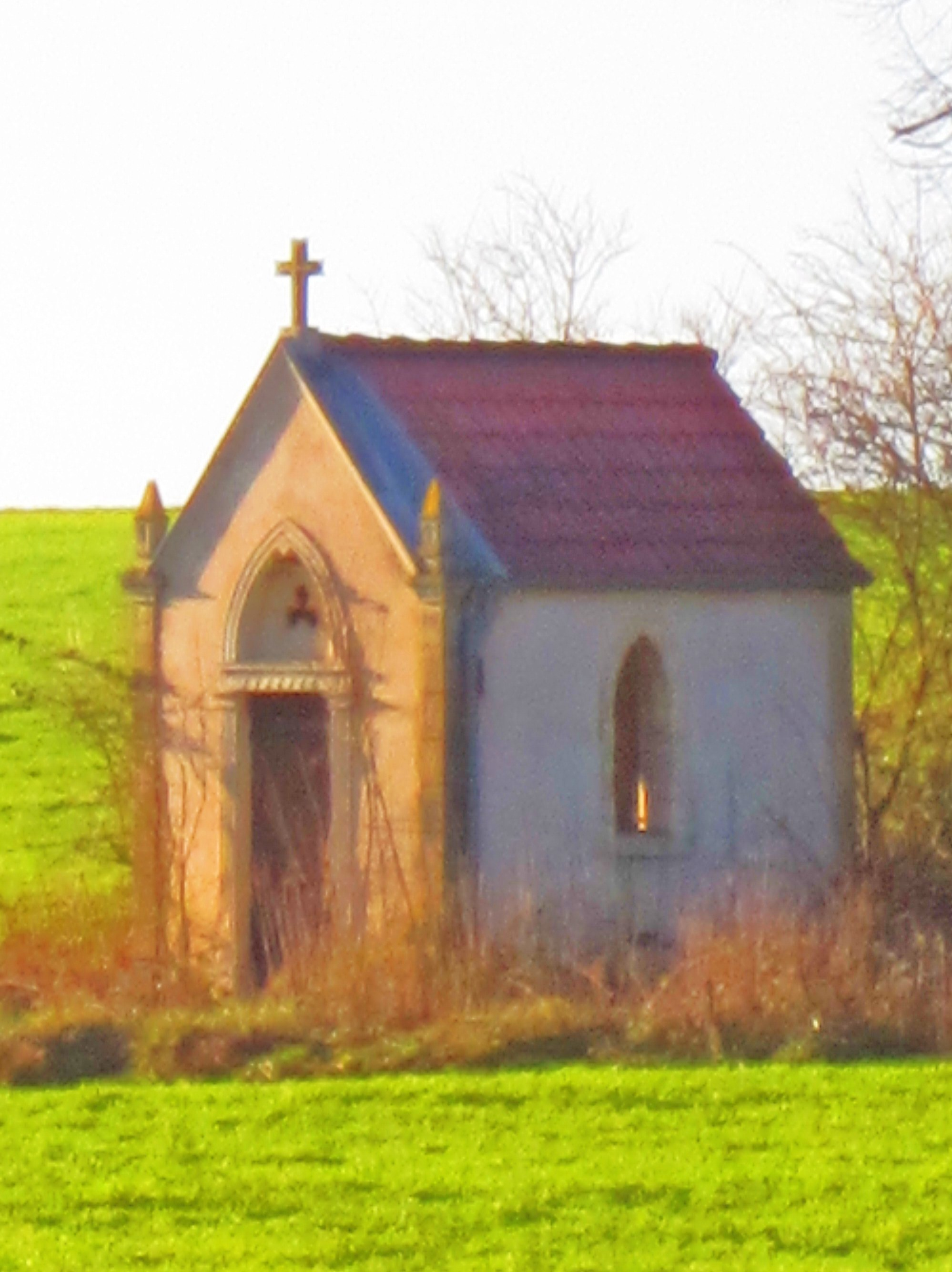 Gondrecourt Aix chapel othain